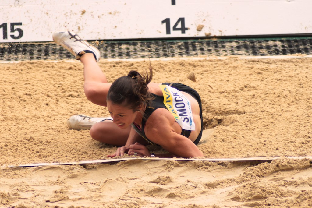 Crystal Palace Grand Prix, Diamond League 2012